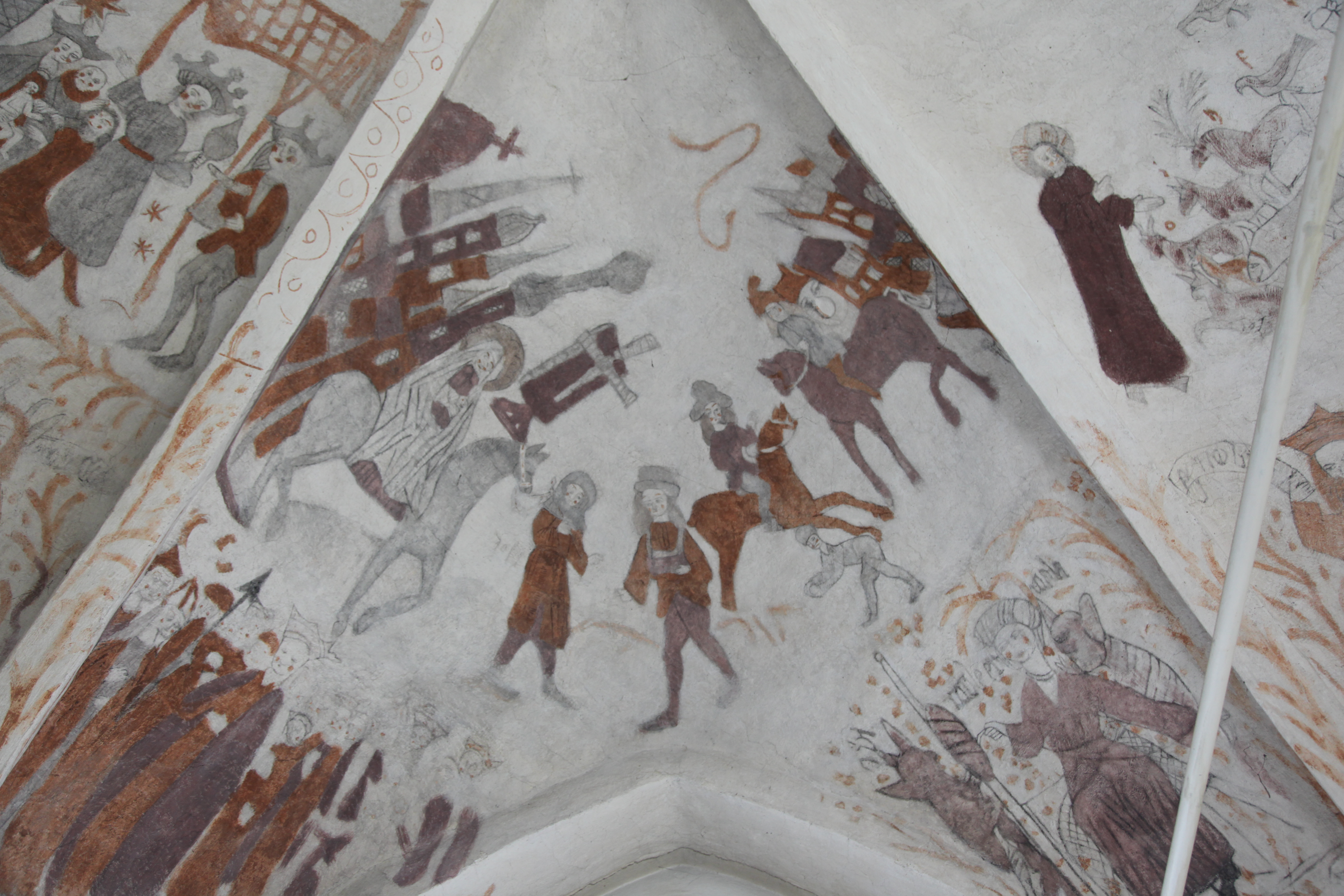 Ågerup church, Denmark